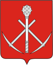 Kireevsk (Tula oblast), coat of arms (1990)